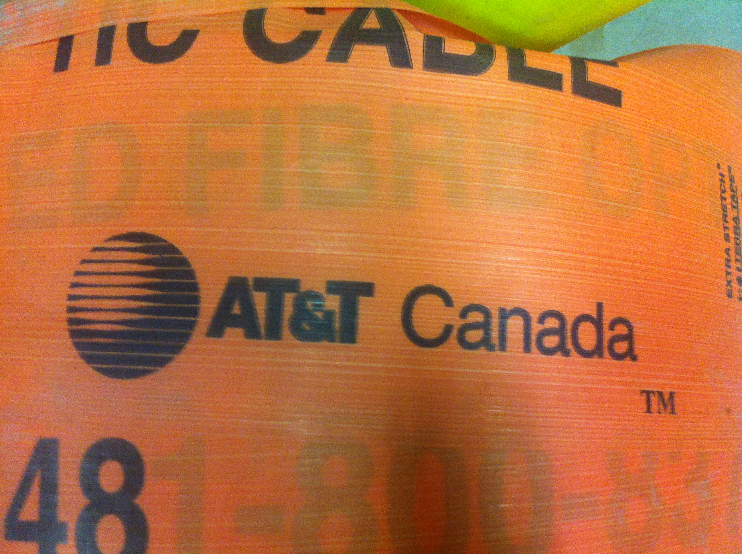 Previous Allstream company name and logo.